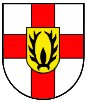 Coat of arms of Moos